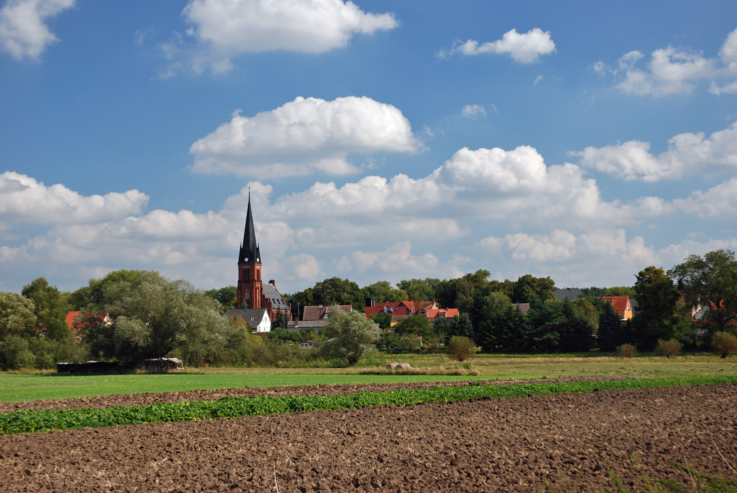 Bralitz, a village in Brandenburg and borough of Bad Freienwalde in the district of Märkisch Oderland